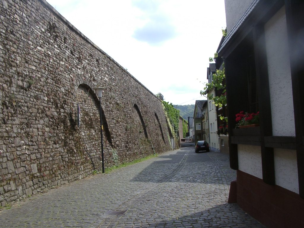 Railway dam in Bruttig on the Mosel river. Remnant of a planned and partially built, but never completed strategic railway.